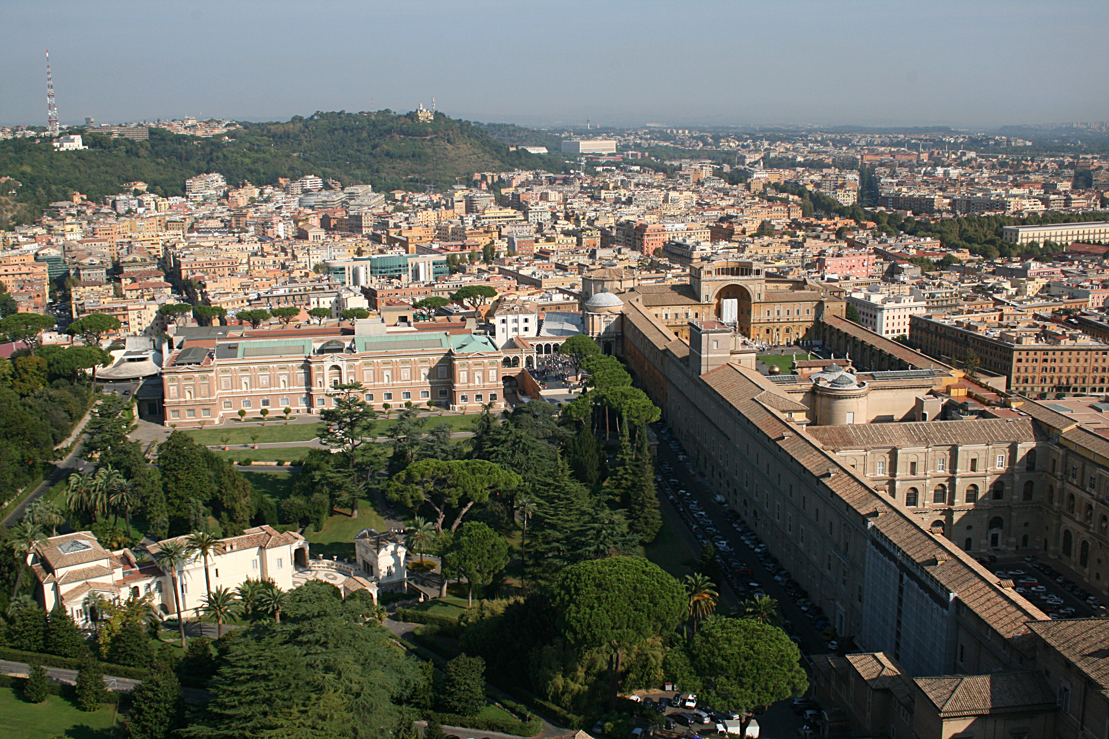 The Pontifical Academy of Sciences, the Casina Pio IV, the pinacoteca and the Vatican Museums.